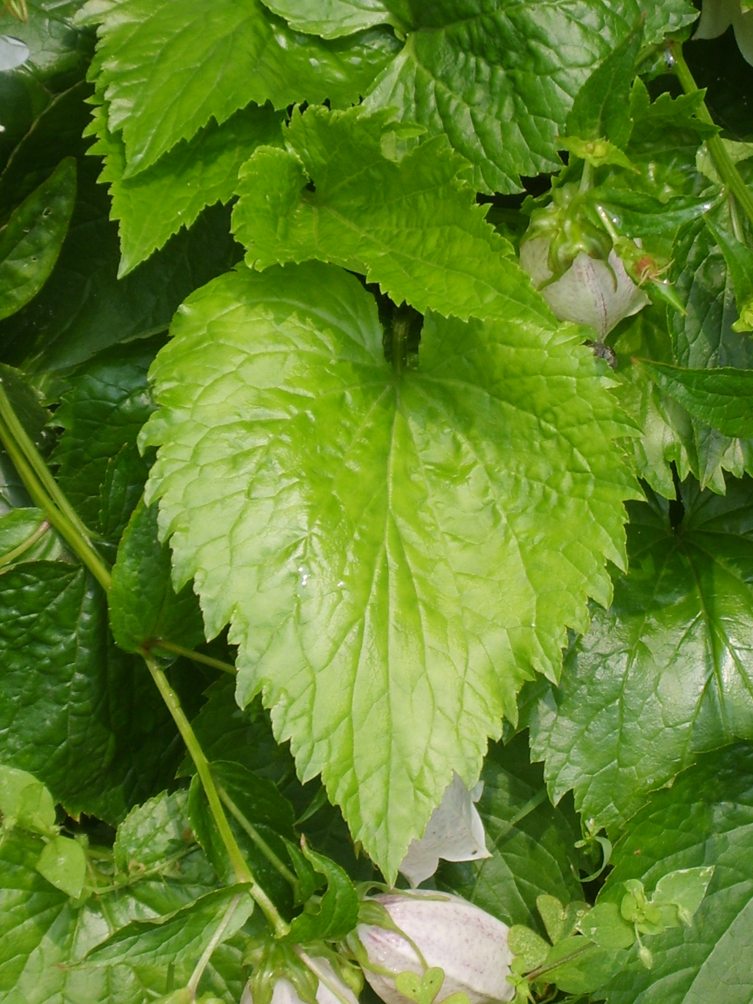 Campanula punctata in Bupyung, Korea